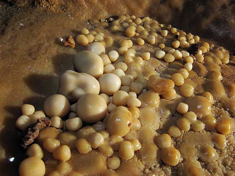 Cave Pearl formation in a limestone cave. Cave pearls are formed by a concretion of calcium salts that form concentric layers around a nucleus. This formation is found at Diamond Caverns in Park City, Kentucky; which is a limestone cave. Photo courtesy of Gary Berdeaux.